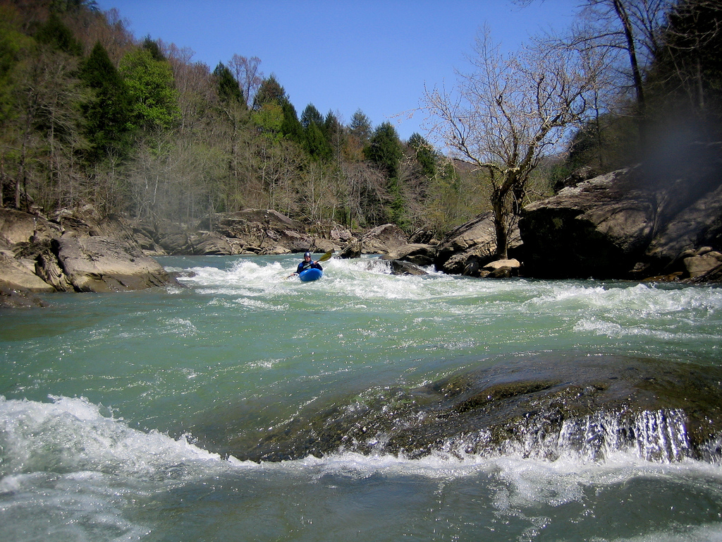 Rockcastle River at 800cfs